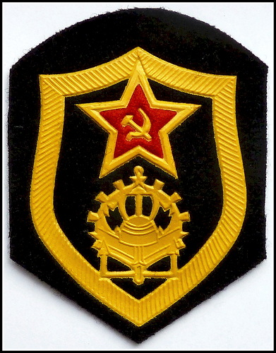 Emblem of the soviet armed forces 1960 to 1991, Soviet Army (military branches, service branches or armed services), sleeve badge (appliquéd) right hand upper arm (dress uniform/ parade uniform) to be used for the ranks OR1 to 8, and WO1 to 2, here: – “Engineers corps”, design 1991.